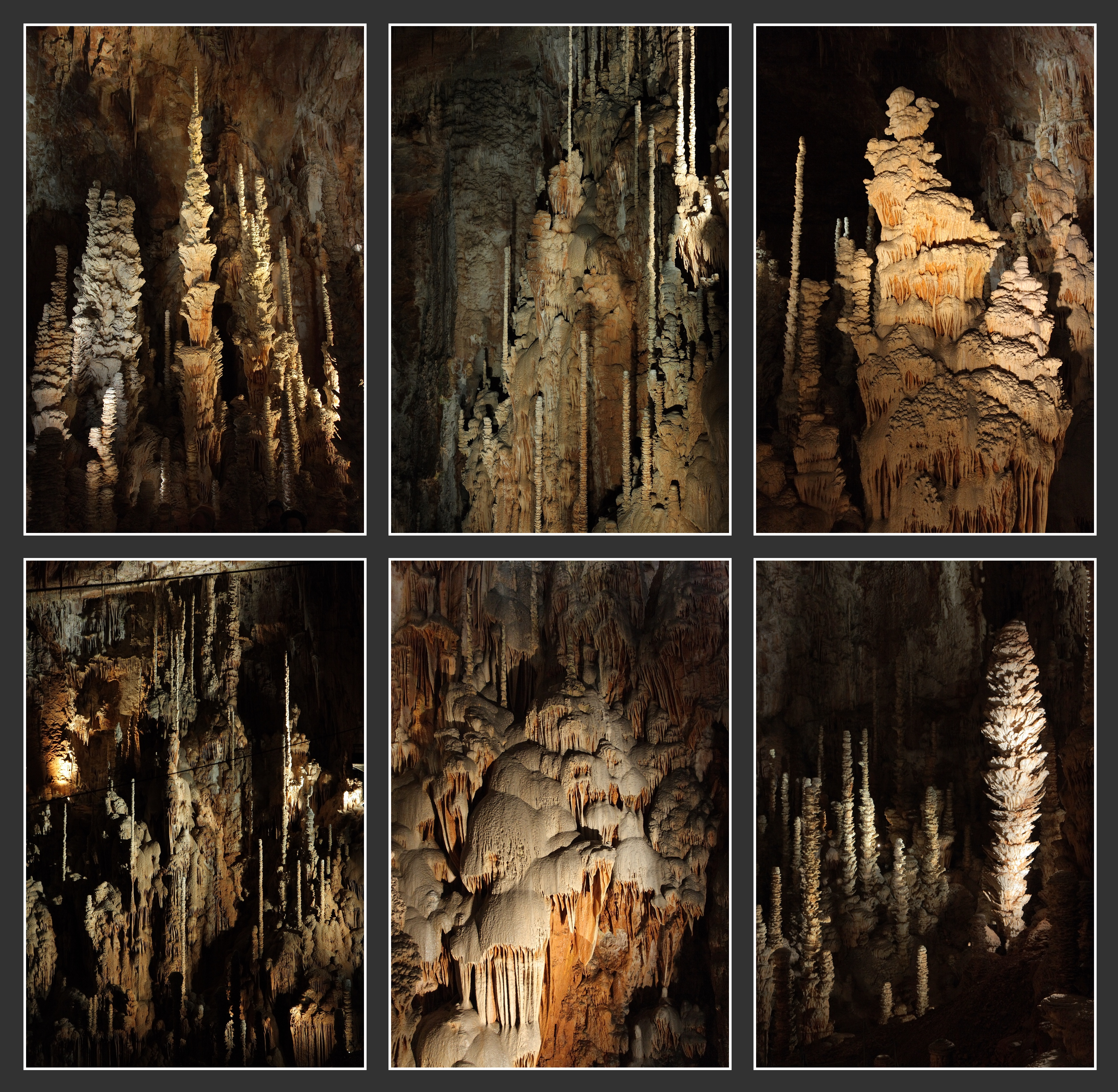 Aven Armand cave. Pictures were taken without flash, and the lighting is the one which can be seen today by any visitor. The first picture features the grande stalagmite, the highest known stalagmite in the world (30m high).